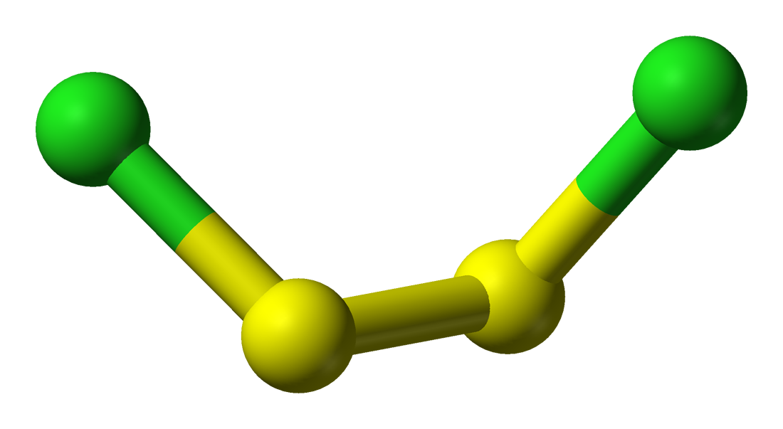 Ball-and-stick model of the disulfur dichloride molecule, S2Cl2